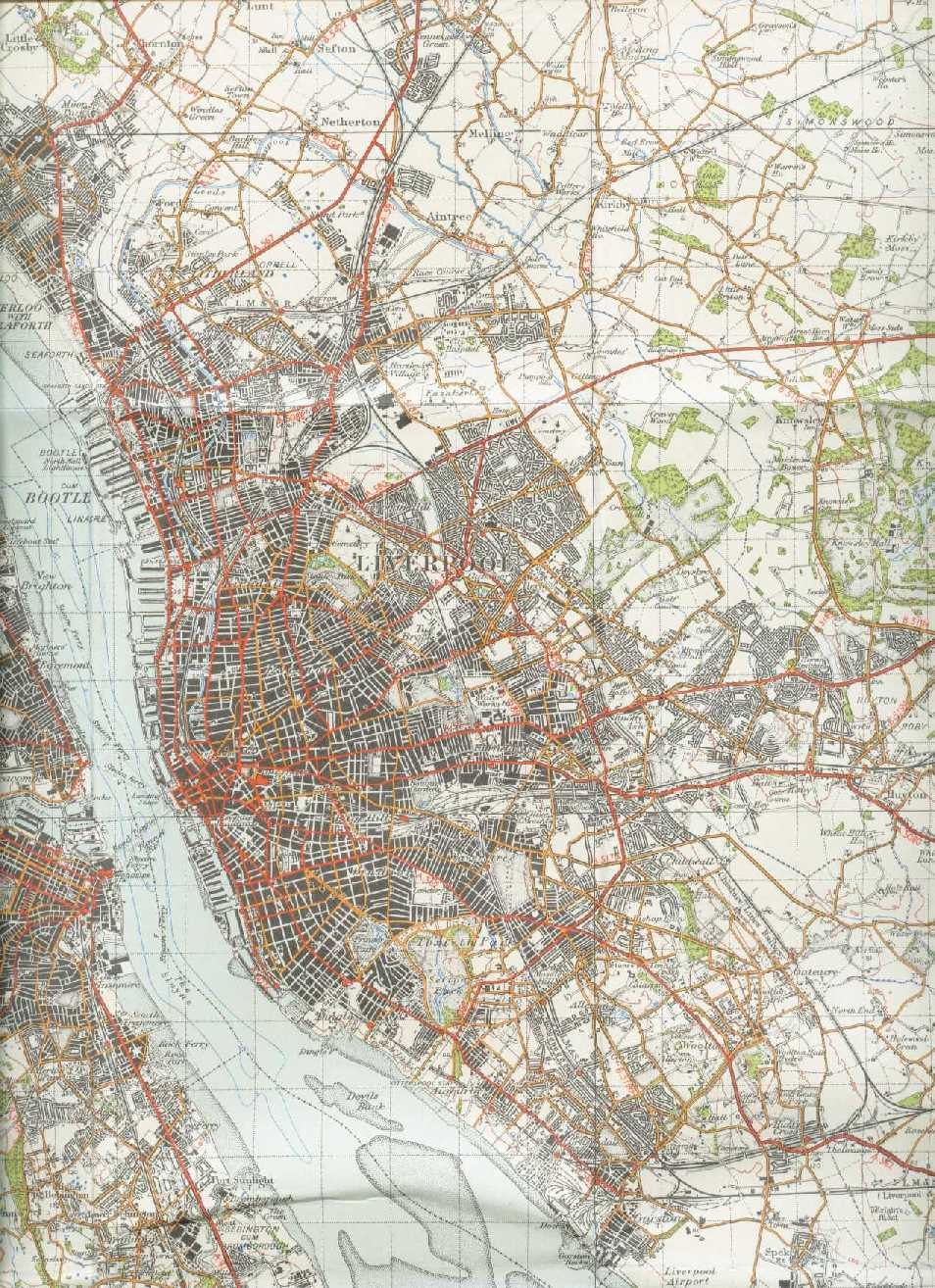 Reproduced from the 1947 OS map